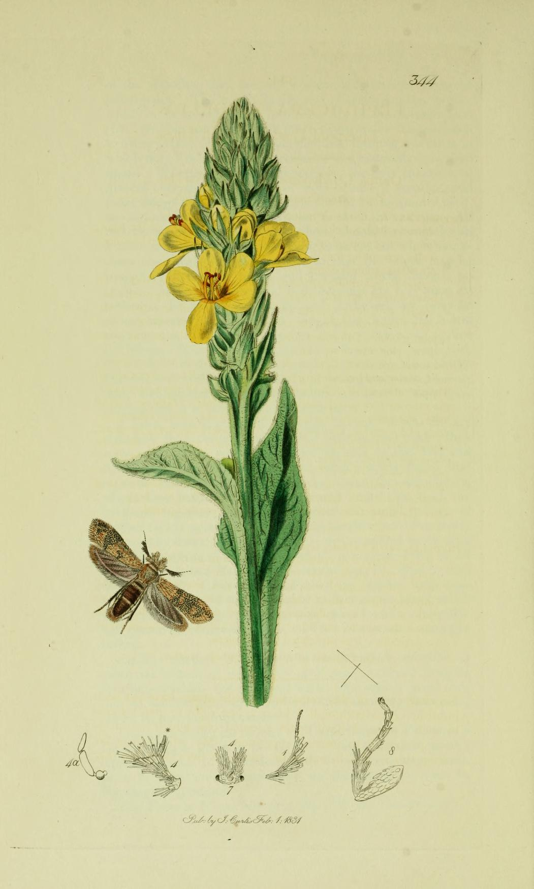 An illustration from British Entomology by John Curtis. Lepidoptera: Lepidocera birdella or Ochsenheimeria mediopectinellus (Liverpool Feather-horn).